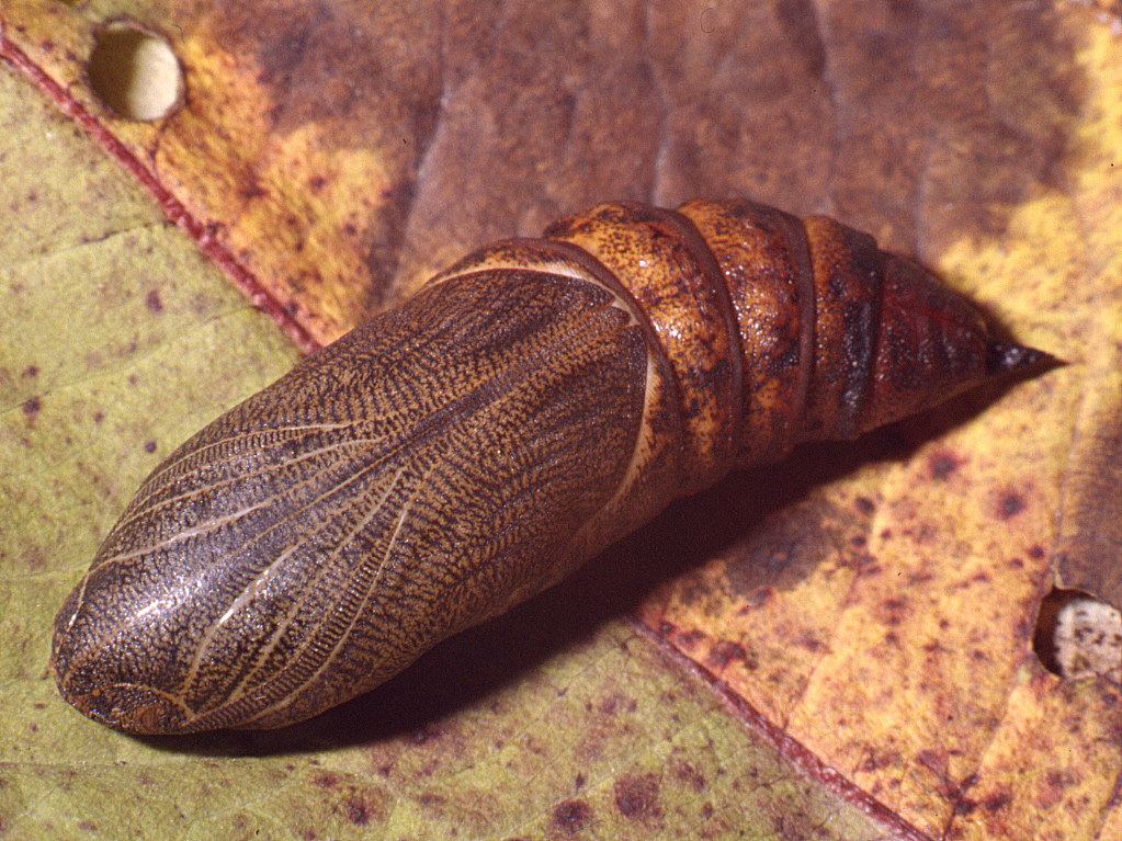 Pupa of Hyles gallii. La Thuile, Aosta, Italy